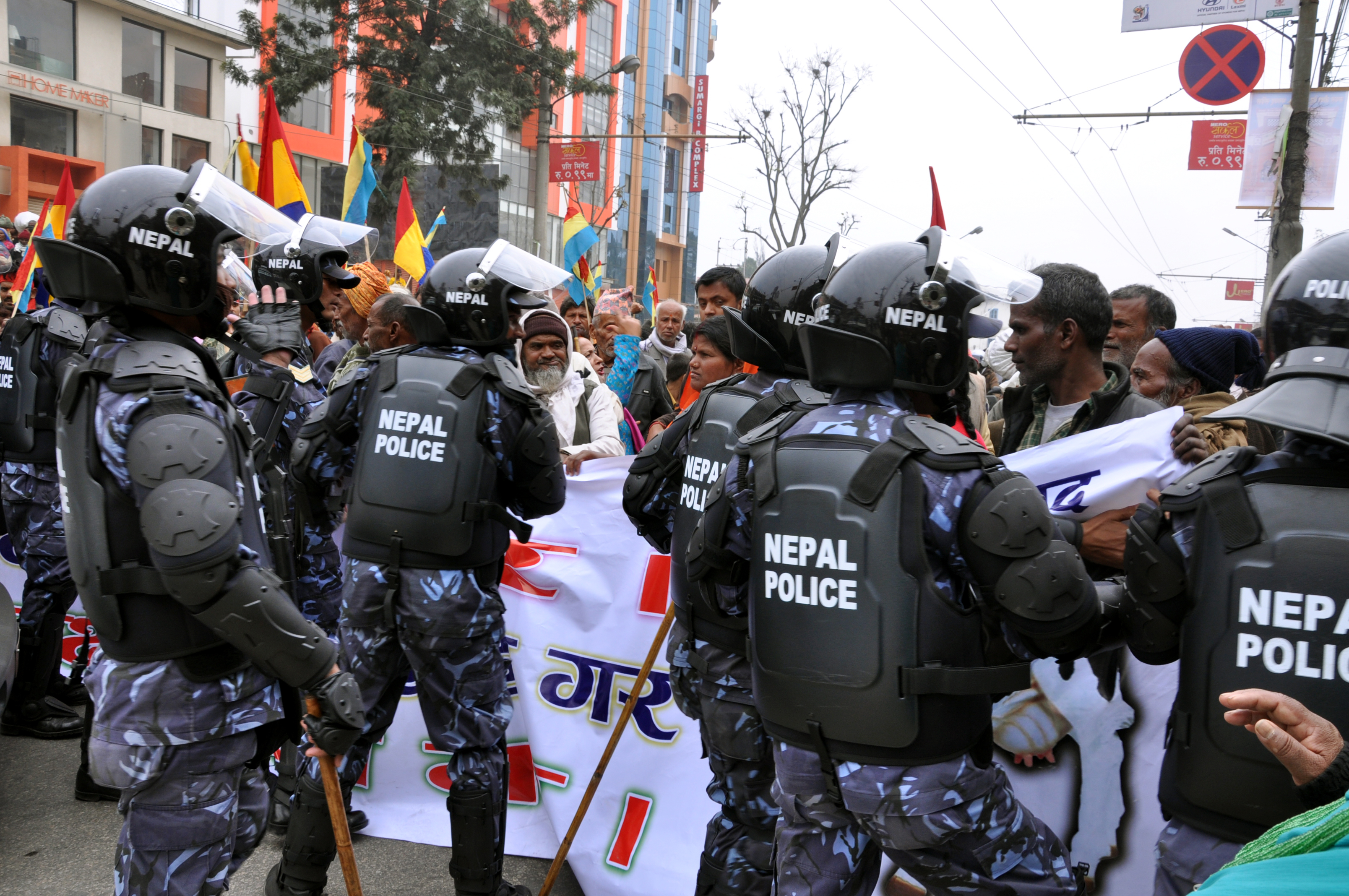 People's Movement of Nepal